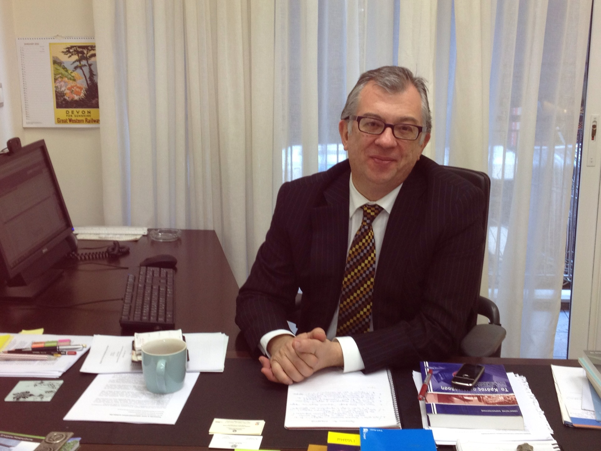 Dr. Panagiotis Karkatsoulis, a Greek legal expert who has been awarded twice by the American Society for Public Administration (2003 and 2012).